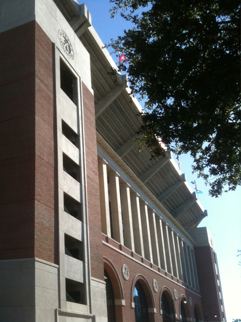 Outside the south side of the stadium prior to the San Jose State game.